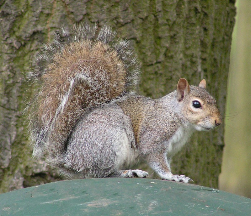 Eastern Gray Squirrel, Sciurus carolinensis. Photo by sannse, 12 May 2004, Colchester.